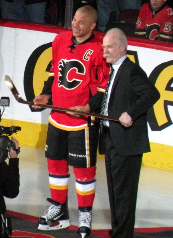 Calgary Flames forward Jarome Iginla (left) is presented with a gold stick by Lanny McDonald in recognition of scoring his 500th career NHL goal.